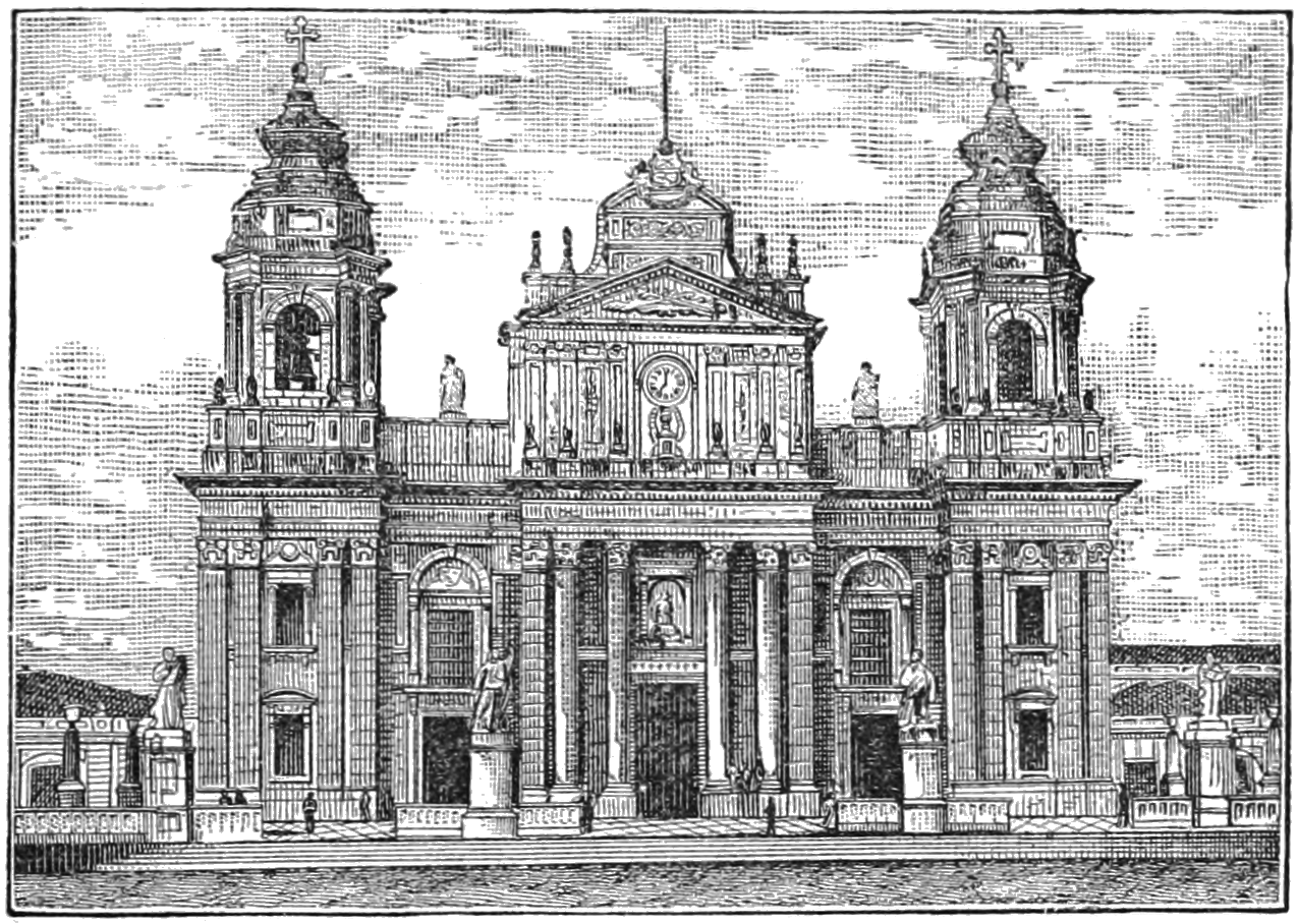 The cathedral, Guatemala